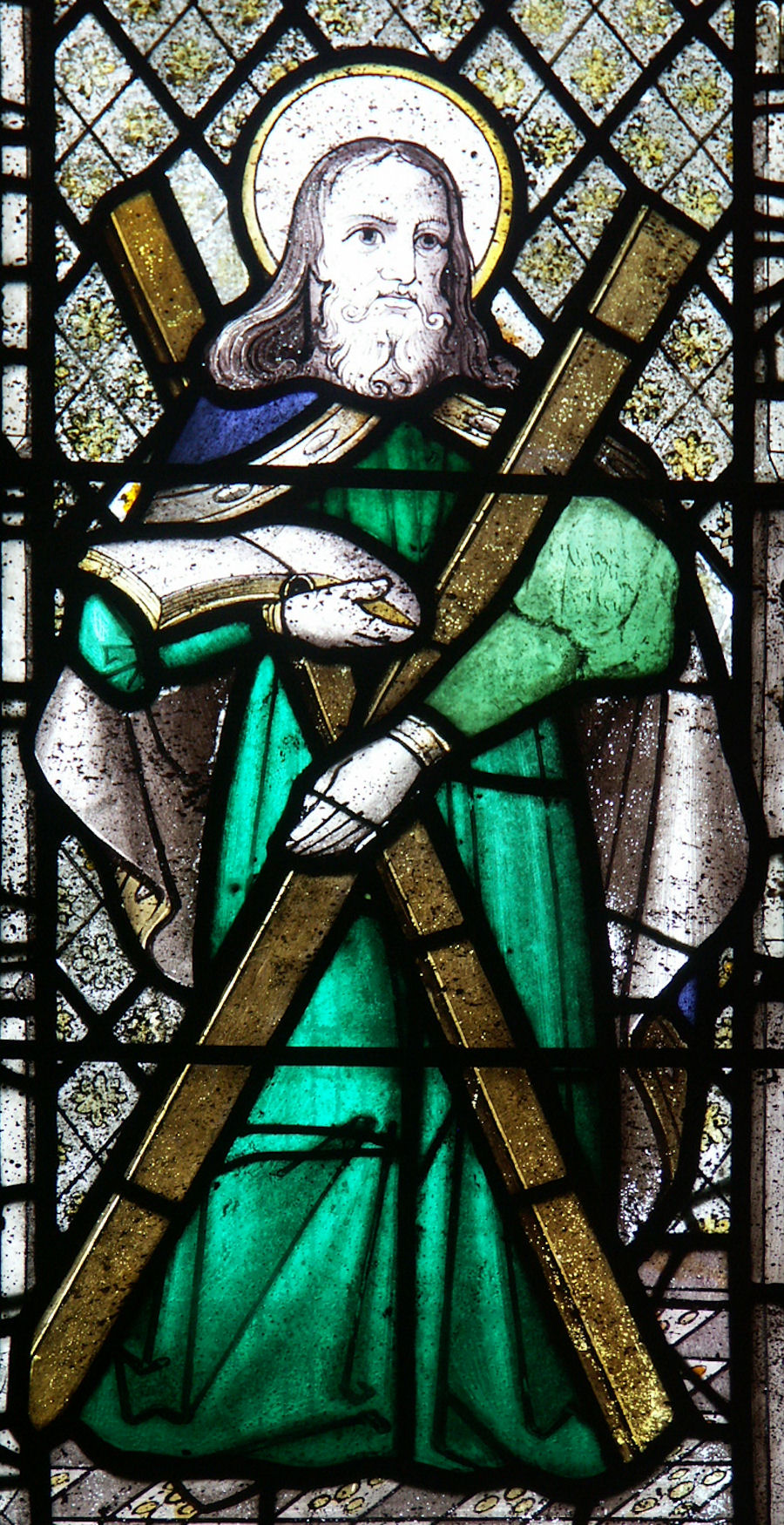 Stained glass depiction of Saint Andrew in the Church of St. Neot, St. Neot, Cornwall, England